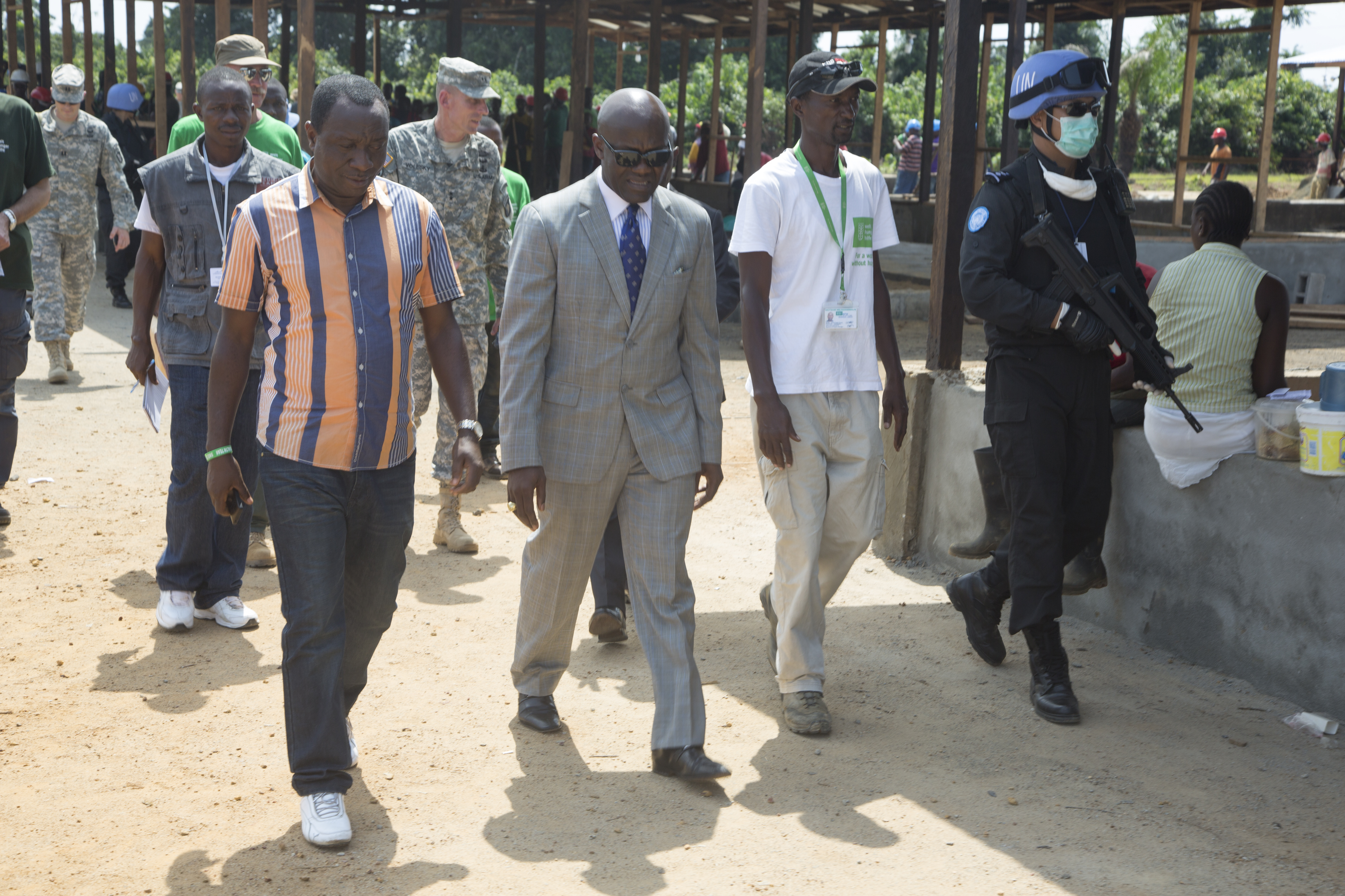 From left, Dr. Wilmut Frank, Sinoe County health officer, the Honorable Joseph Johnson, Liberian deputy minister for administration, and Daniel Dined, civil engineer, tour a new Ebola treatment unit built as part of Operation United Assistance in Greenville, Liberia, Dec. 4, 2014. United Assistance is a Department of Defense operation to provide command and control, logistics, training and engineering support to U.S. Agency for International Development-led efforts to contain the Ebola virus outbreak in West African nations. (U.S. Army Photo by Sgt. 1st Class Brien Vorhees, 55th Signal Company (Combat Camera)/Released)